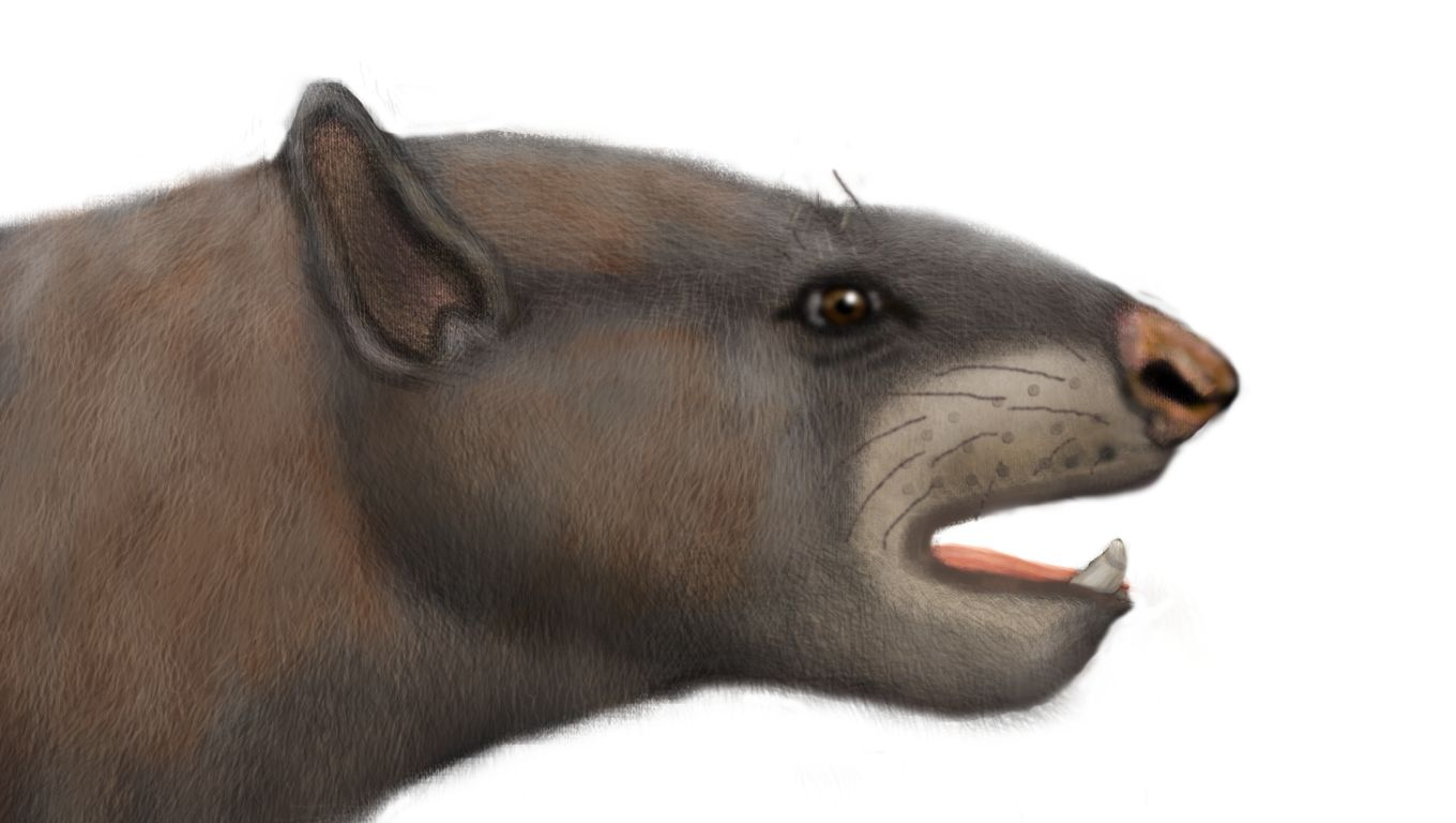 Life restoration of Trigonostylops wortmani.